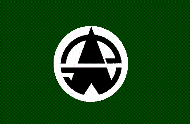 Flag of Yasuoka Nagano